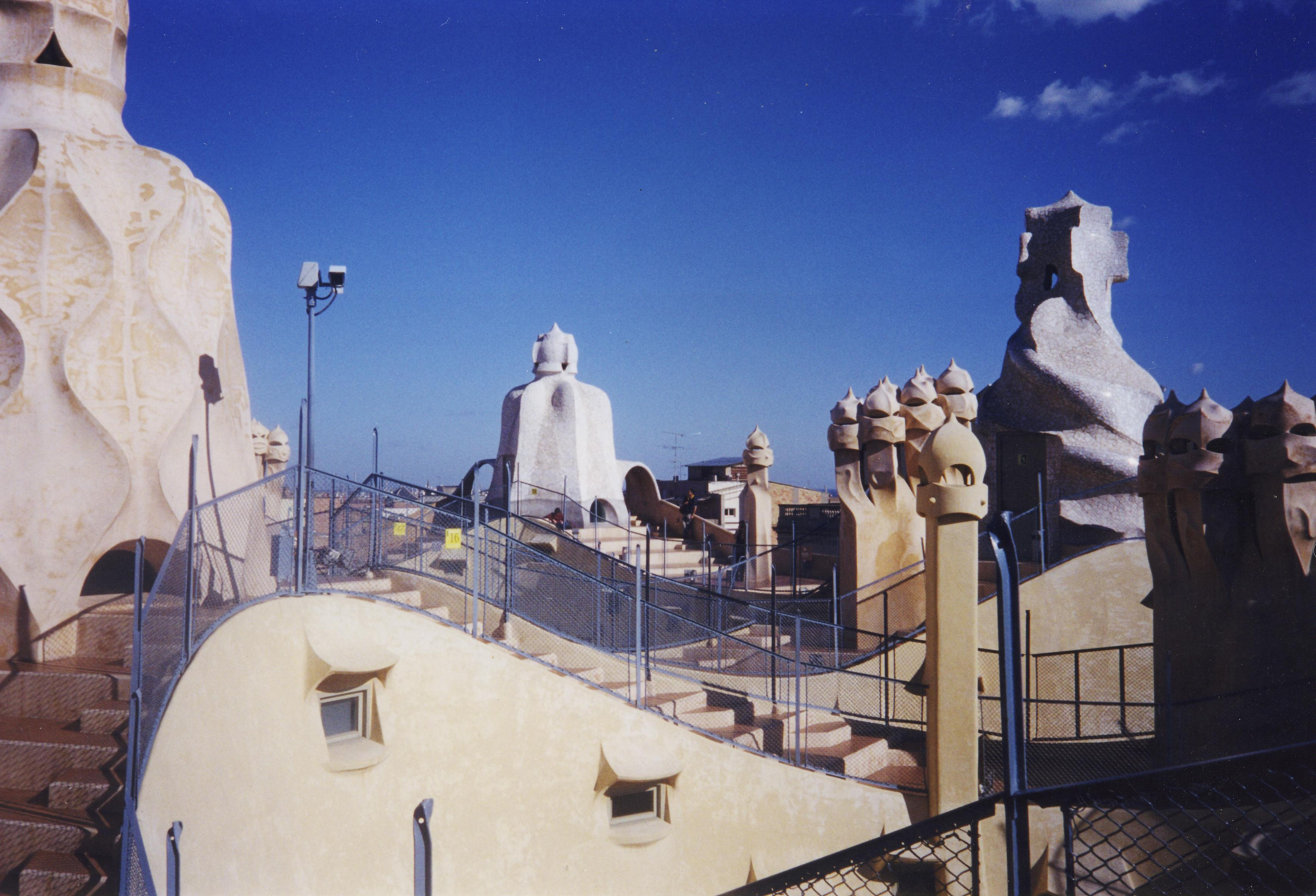 Roof of Casa Mila, BarcelonaRoof of Casa Mila, Barcelona